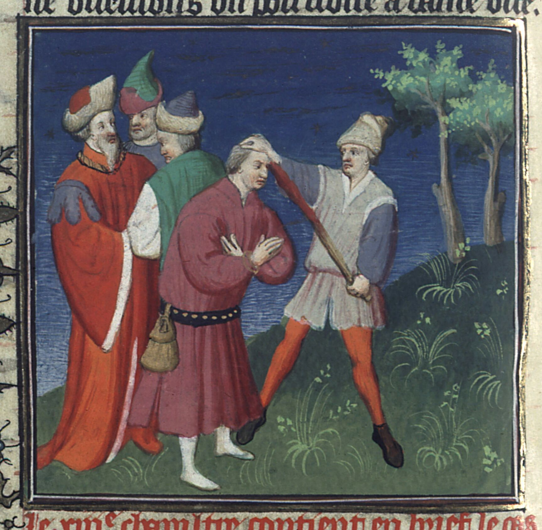 Isaac II Angelos blinded at his brother's orders